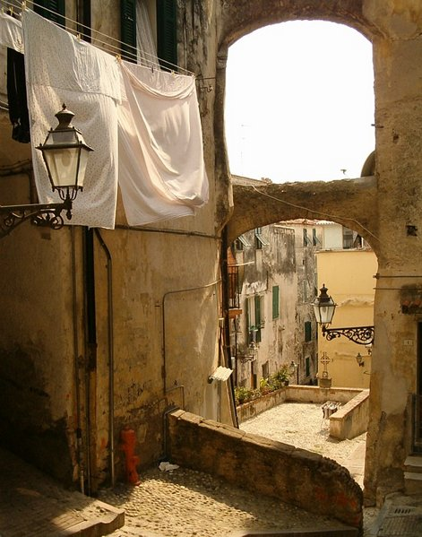 Sanremo, La Pigna Picture taken by user:Idéfix, july 2004